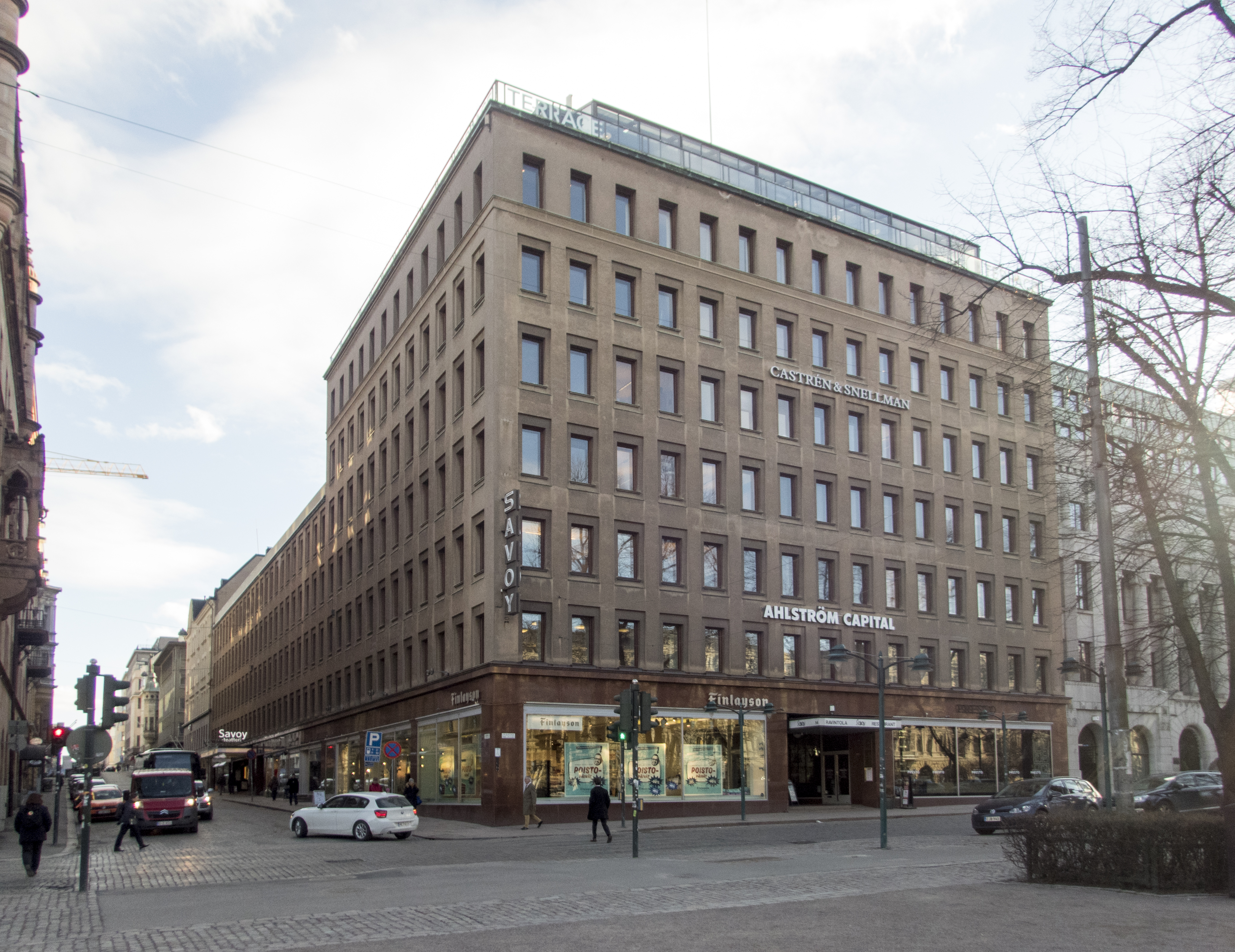 Kasarmikatu 46-48 - Eteläesplanadi 14, Helsinki Architects Jung & Jung. Built in 1937